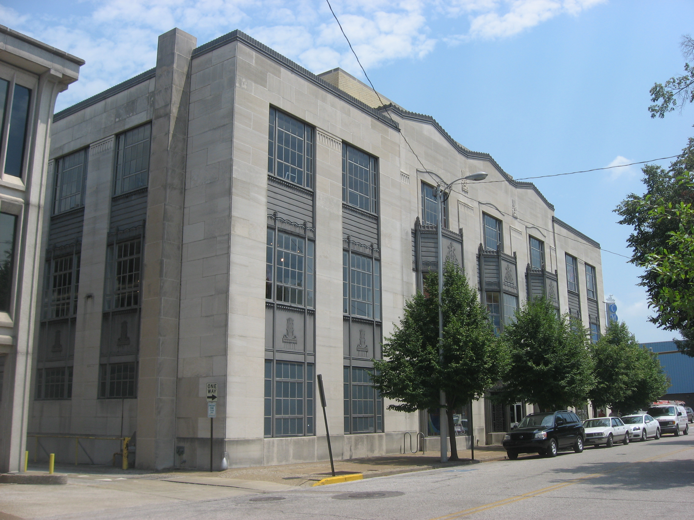 Front of the Children's Museum of Evansville, located at 22 SE. Fifth Street in Evansville, Indiana, United States. Built in 1931 as the old Central Library, it is listed on the National Register of Historic Places.